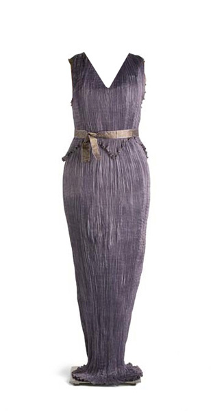 Dress of pleated violet silk satin with Murano beading.